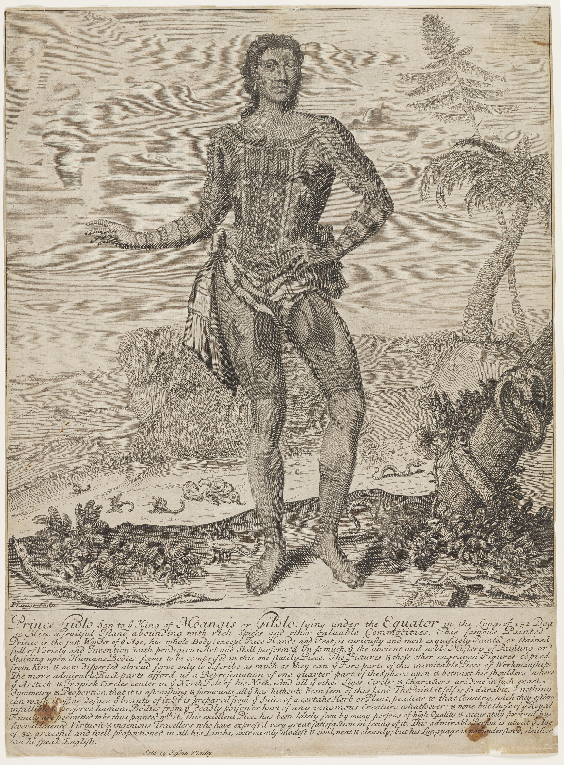 Etching of Prince Giolo with the title etched below.